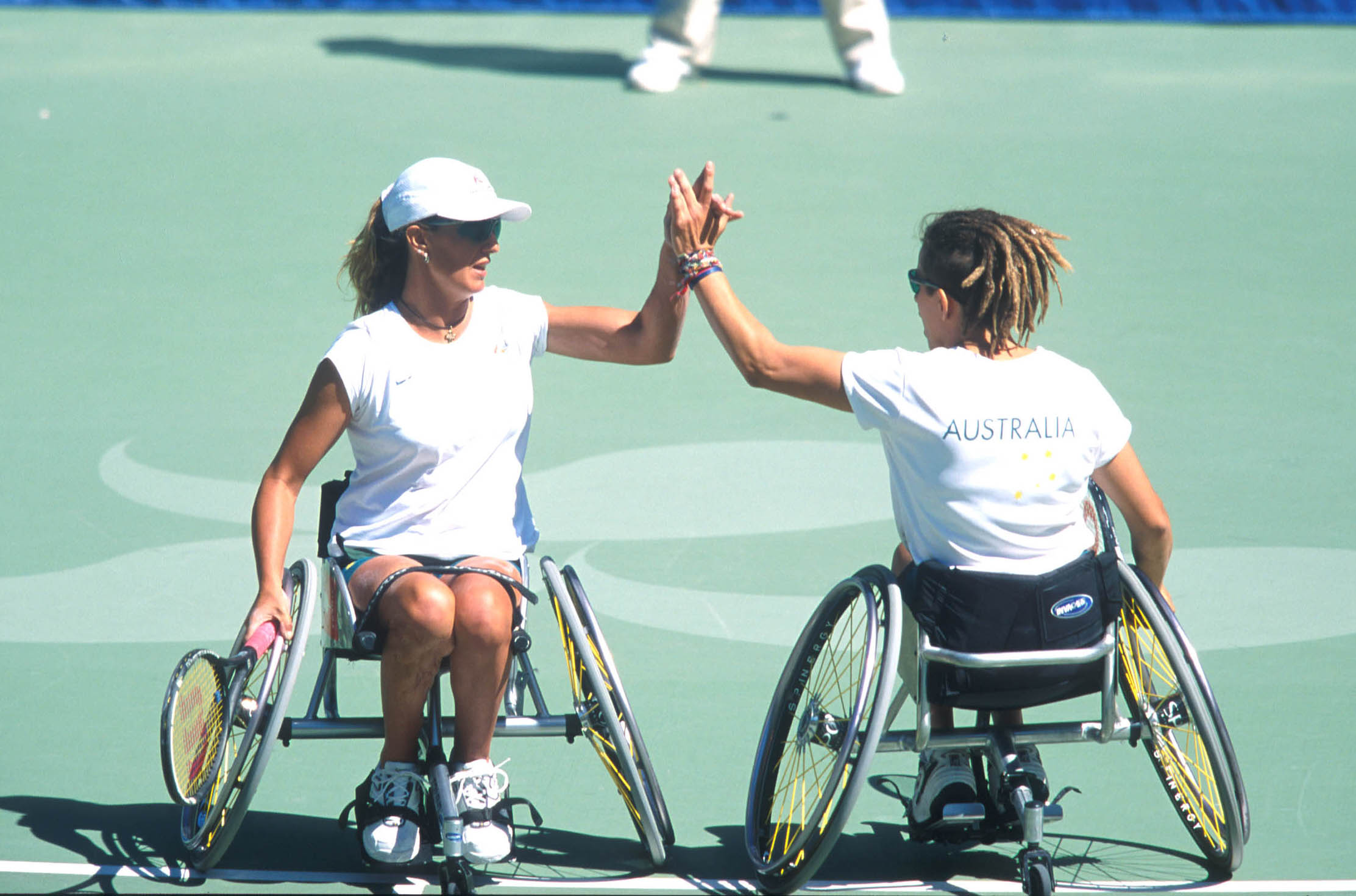 Australian wheelchair tennis players Daniela Di Toro and Branka Pupovac hold up hands during 2000 Sydney Paralympic Games match. They won gold in the Women's Doubles.